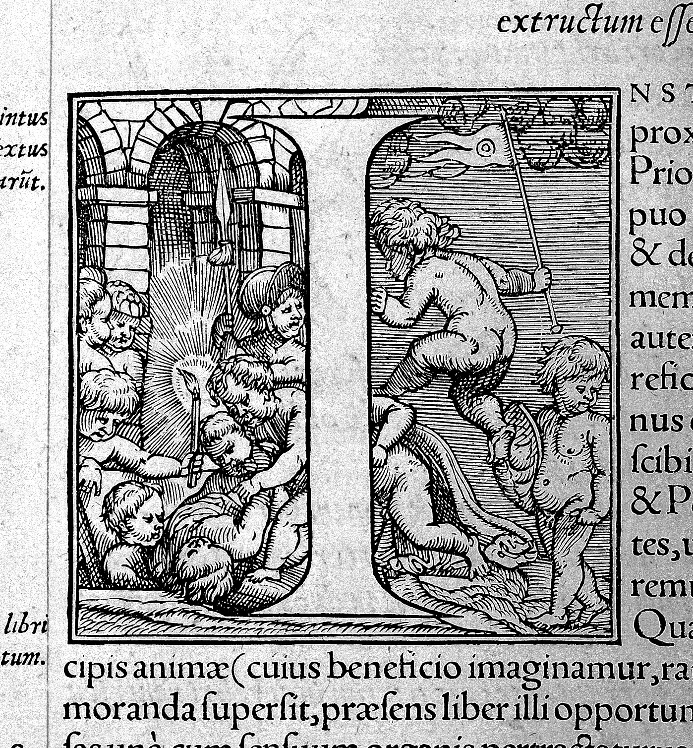 Page 315: Decorated letter I Rare Books